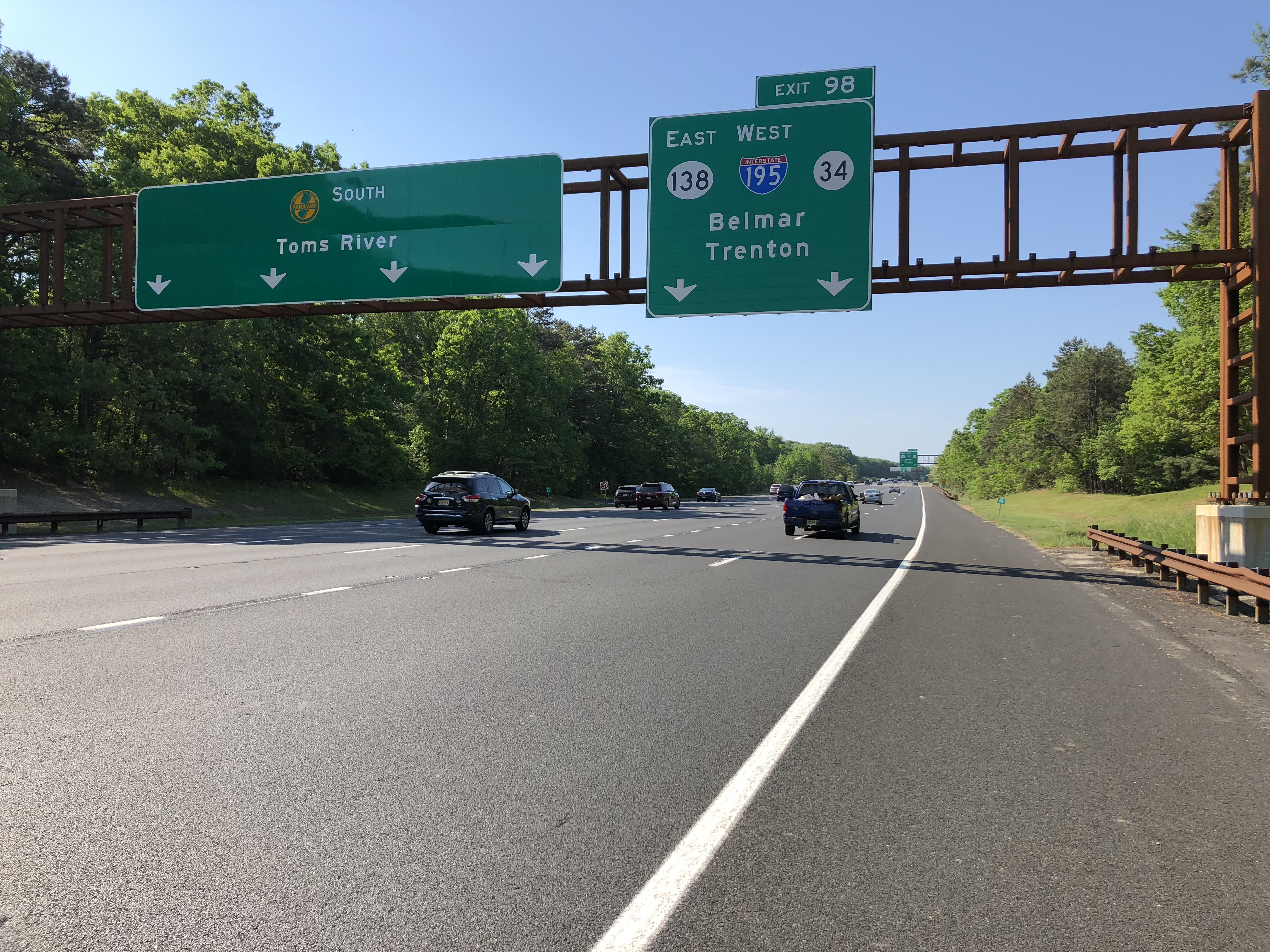 View south along New Jersey State Route 444 (Garden State Parkway) just north of Exit 98 (New Jersey State Route 138 EAST, Interstate 195 WEST, New Jersey State Route 34, Belmar, Trenton) in Wall Township, Monmouth County, New Jersey